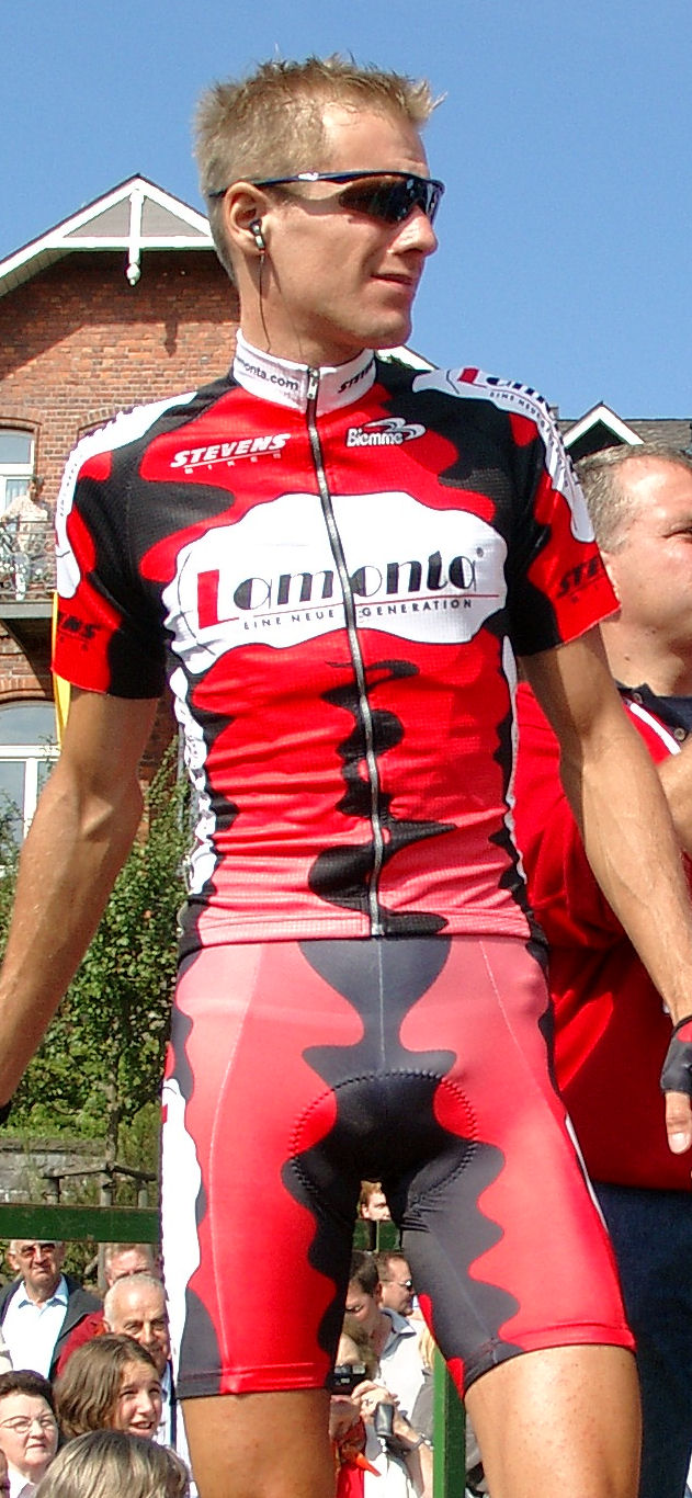 Björn Papstein